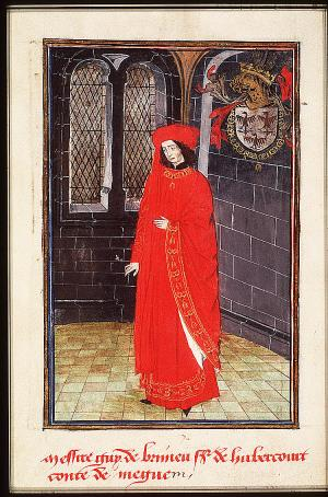 Statuts, Ordonnances et Armorial de l'Ordre de la Toison d'Or (Statutes, Ordonnances and armorial of the Order of the Golden Fleece) Place of origin, date: Southern Netherlands; 1473. Added sections: Southern Netherlands; 1478 or shortly after and 1491 or shortly after Material: Vellum, ff. 86, 249x187 (167x106) mm, 23 lines, littera cursiva (lettre bourguignonne). French. Binding: 18th-century brown leather Decoration: 1 full-page miniature (170x115 mm) with border decoration; 92 miniatures (185/155x120/100 mm); 1 historiated initial (80x90 mm) with border decoration; decorated initials with border decoration (ff., Added section: miniatures ; 4 drawings for miniatures (not finished) Provenance: Presented in 1473 by Gilles Gobet, King of Arms of the Order of the Golden Fleece, to Charles the Bold, Duke of Burgundy and the other Knights during the Chapter of the Order held at Valenciennes; Treasure of the Golden Fleece, Brussls; taken away by the Treasurer C.-F. Humyn (d. 1735) or his daughter C.Ch. de Corte; by legacy to her daughter M.-L. de Corte, wife of Ph.-E. de Poederlé; purchased in 1781 at the Poederlé sale by G.-J- Gérard of Brussels; acquired in 1832 as part of the Gérard collection (no. A 27)